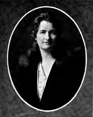 Virginia Jolliffe, Mrs. Daniel C. Jackling, 1st President of the Girls' Recreation and Home Club, Who's who among the women of California